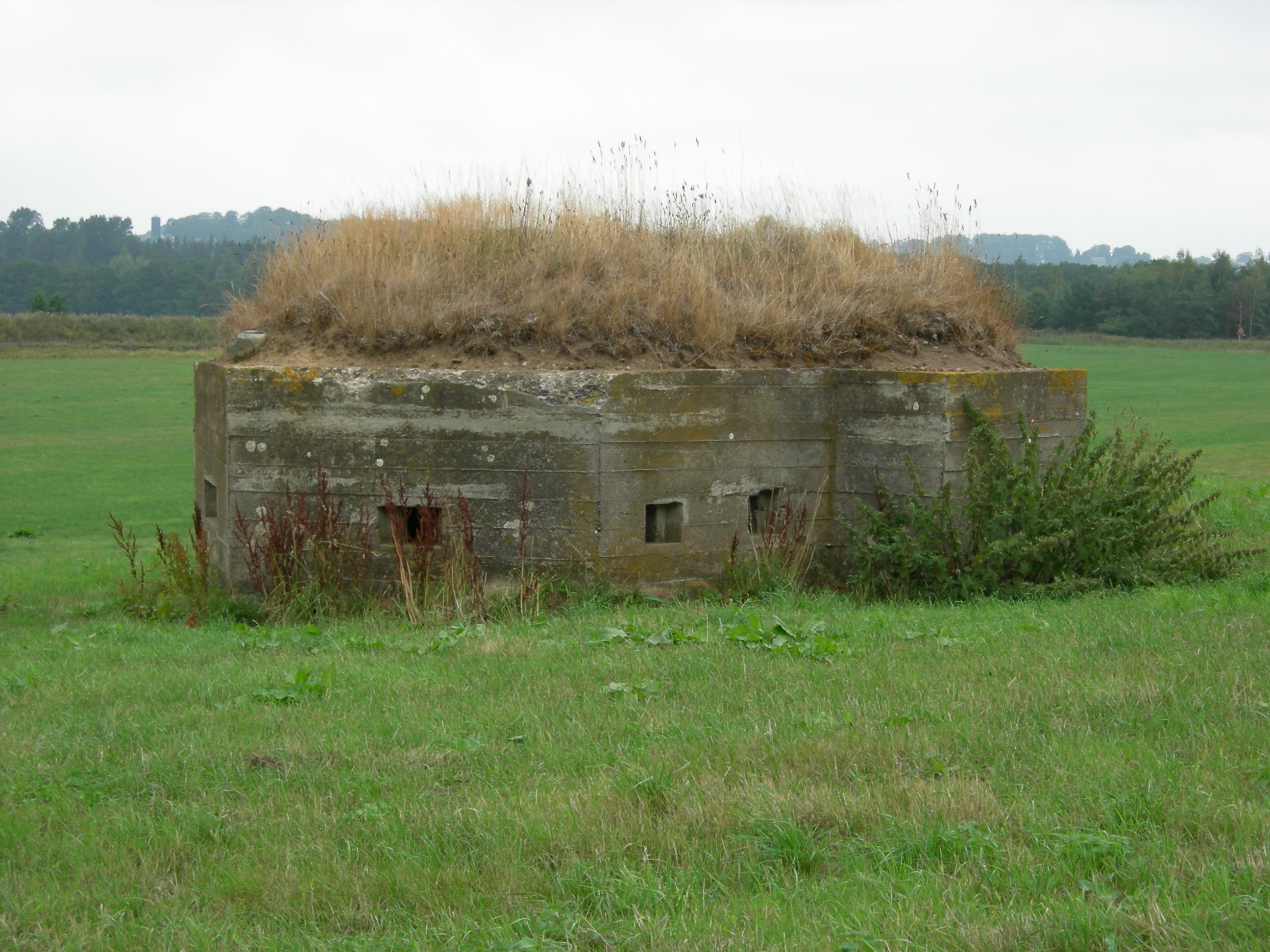 Picture of a pillbox in Coquet Stop Line.